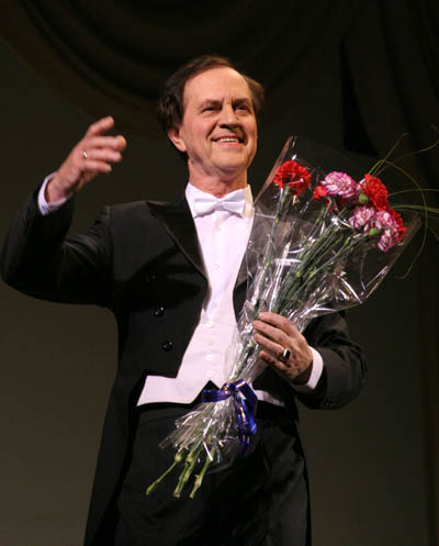 People's Artist of the USSR, Leonid Smetannikov